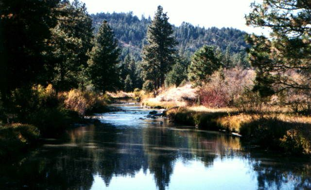 Drews Creek, Fremont National Forest, Oregon; named for Lieutenant Colonel C.S. Drew who passed by the creek during his 1864 Owyhee reconnaissance